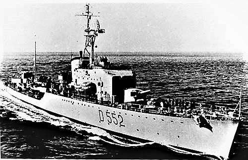 The destroyer Grecale (D 552) in navigation